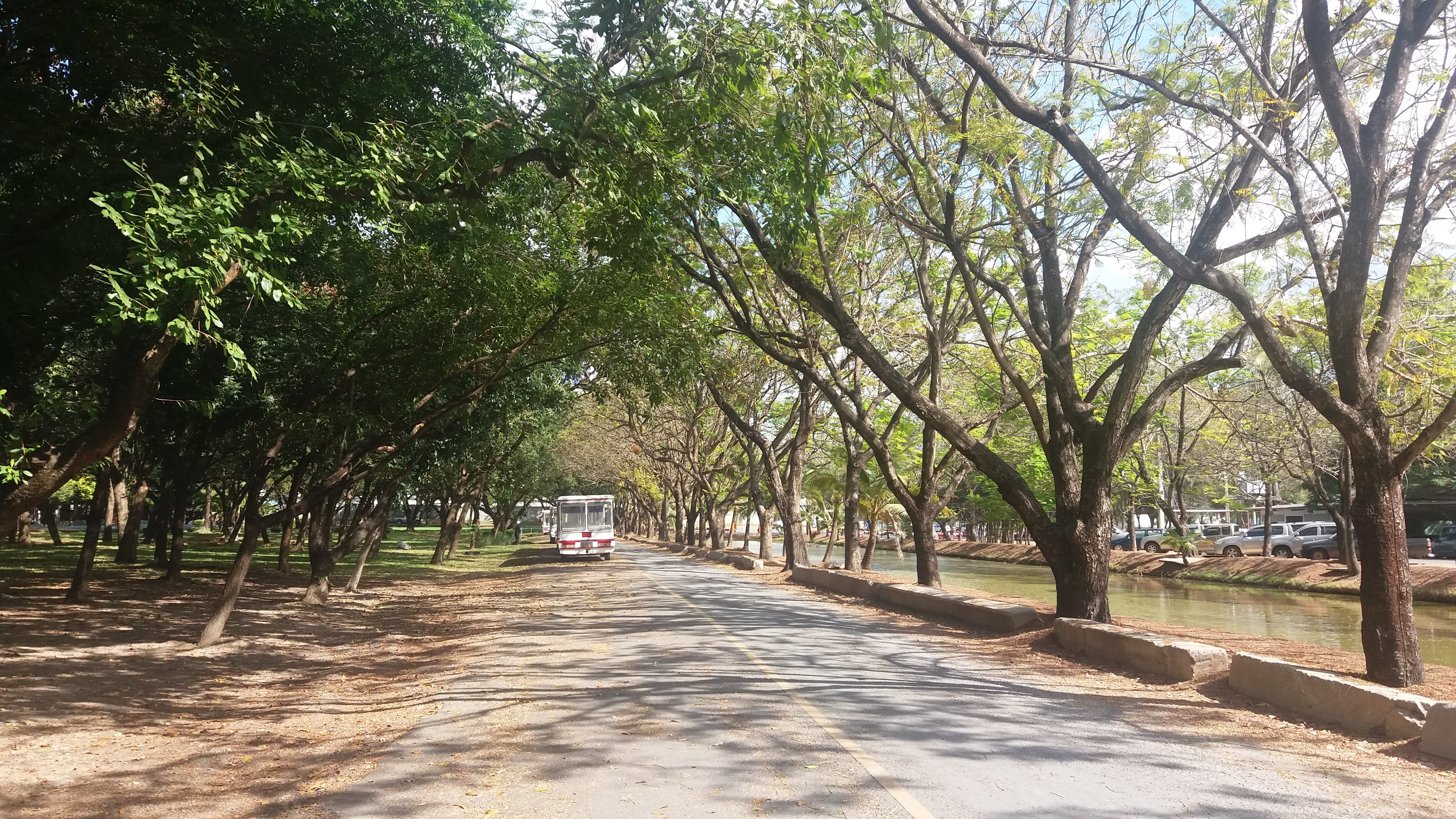 Greenery at Wat Phra Dhammakaya